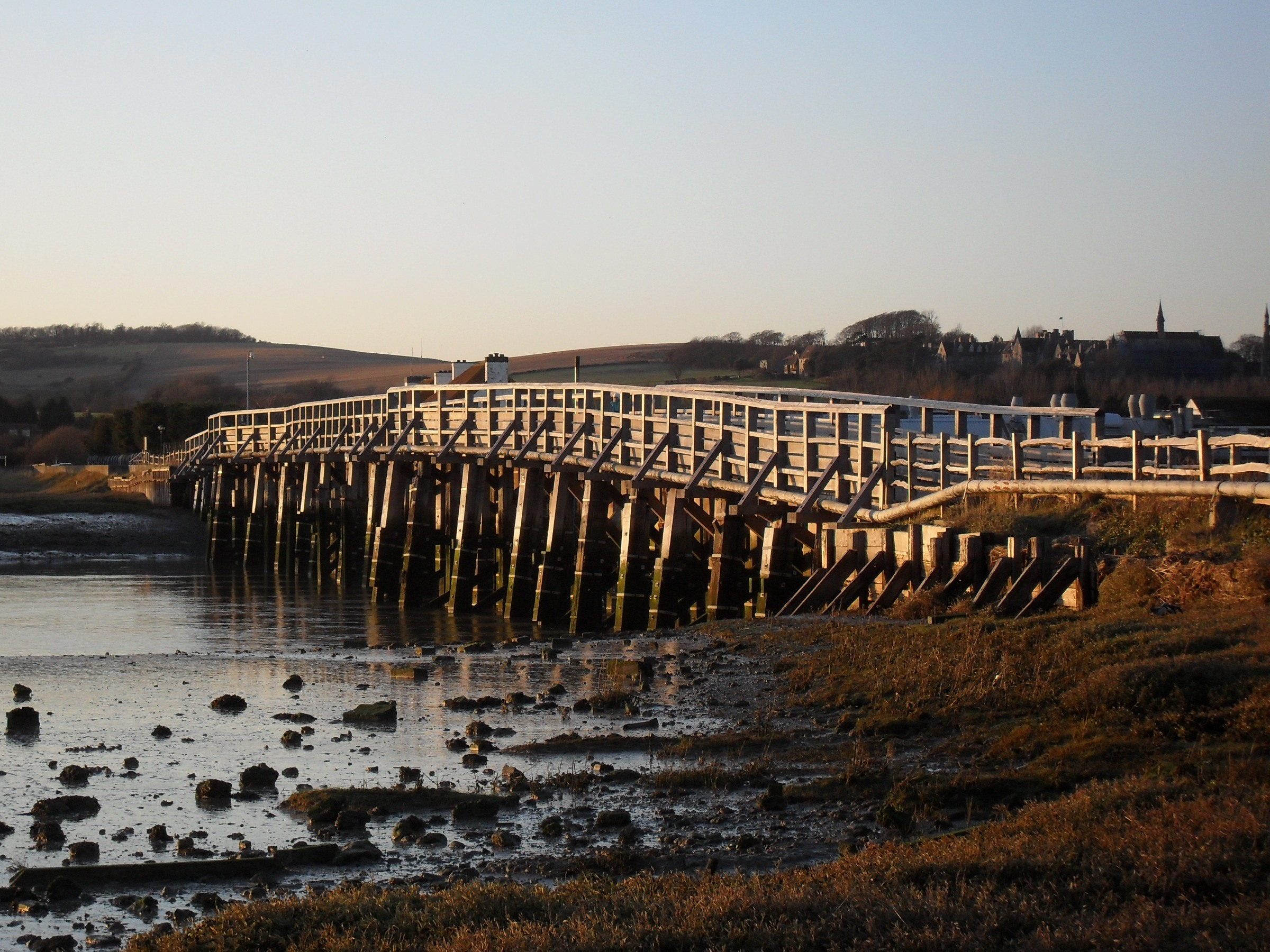 Old Shoreham Tollbridge, Shoreham-by-Sea, Adur, West Sussex, England. An 18th-century former tollbridge across the River Adur from Old Shoreham to Lancing. Listed at Grade II* by English Heritage (IoE Code 297270)